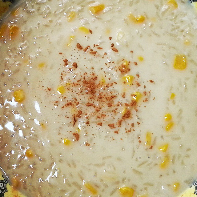 Ginataang mais - sweet sticky rice porridge with corn in coconut milk